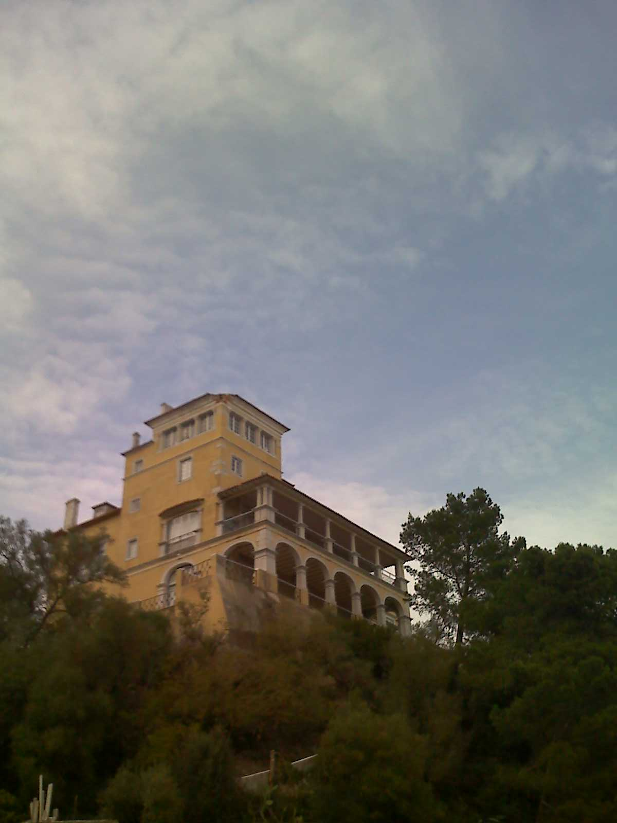 House of Casa da Quinta da Comenda, palace built in a rock over the ocean in 1903.